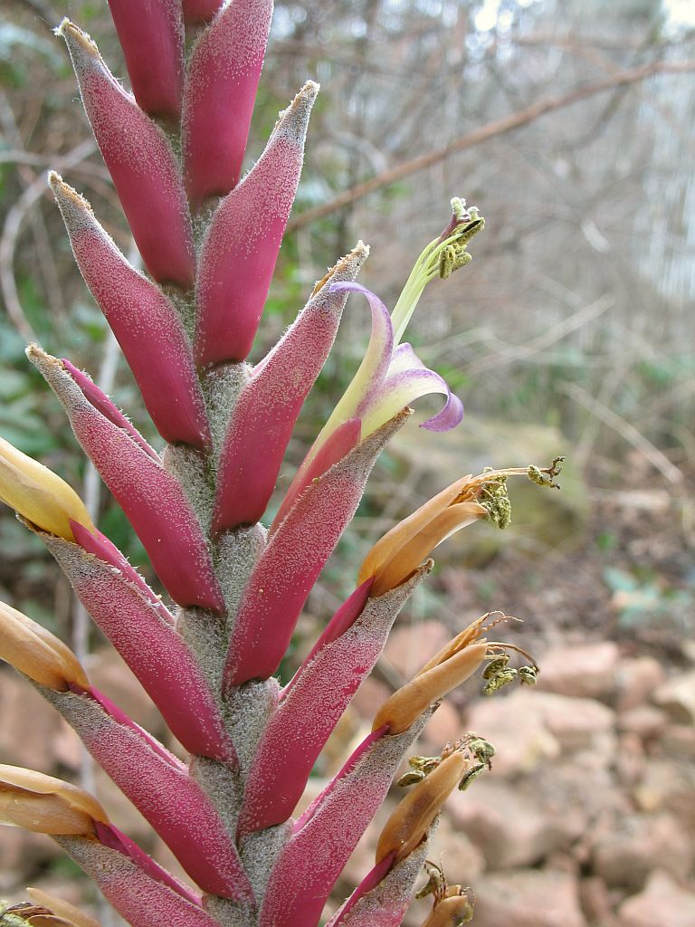 Vriesea barclayana in cultivation at the Botanical Garden of Heidelberg, Germany.